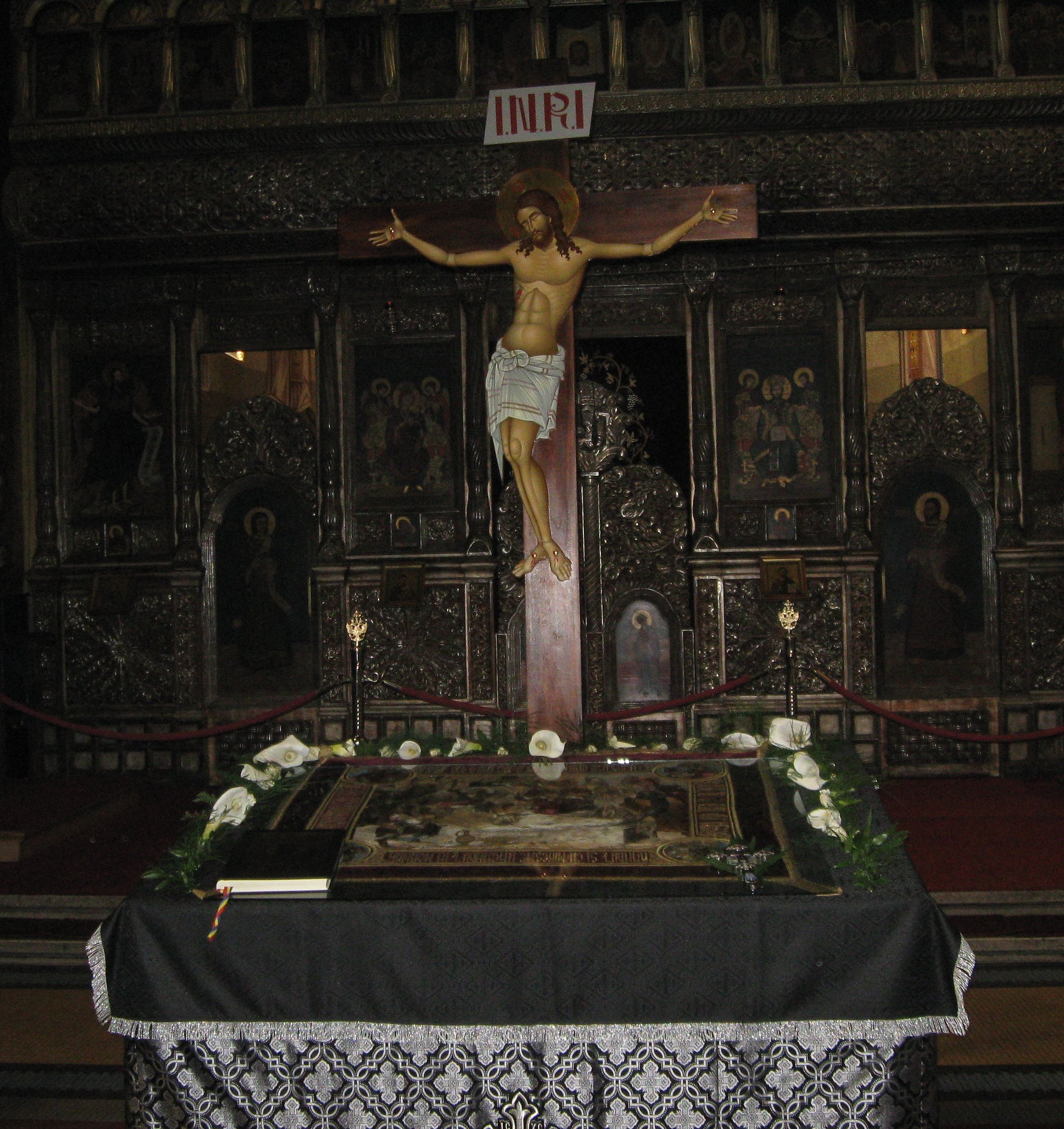 This image was taken on the Great Friday (=Good Friday) in the Orthodox Cathedral in Cluj-Napoca when the Holy Shroud (Gr. "epitaphios")is exhibited.